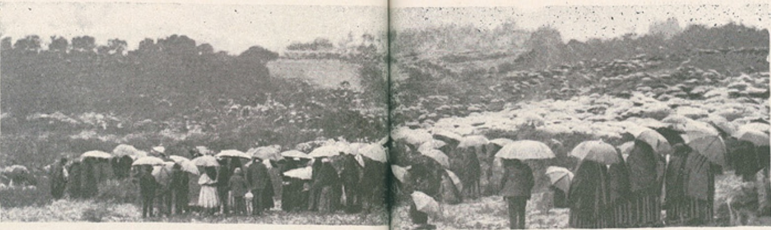 People waitinf for the event known as "The Miracle of the Sun" occurred on October 13, 1917. Waiting above the rain.